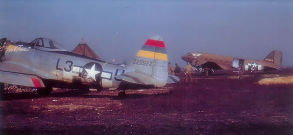 Republic P-47D-27-RE Thunderbolt Serial 42-26922 of the 512th Fighter Squadron, 406th Fighter Group, at RAF Ashford, England. Note the C-47 in background.